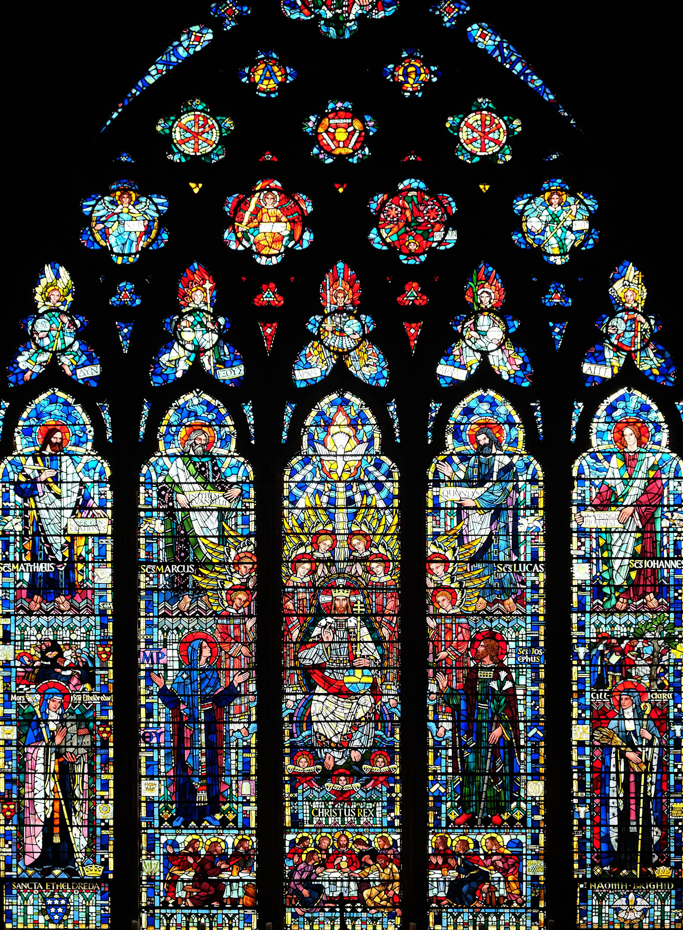 A very large window designed by Joseph Edward Nuttgens and installed in 1952.